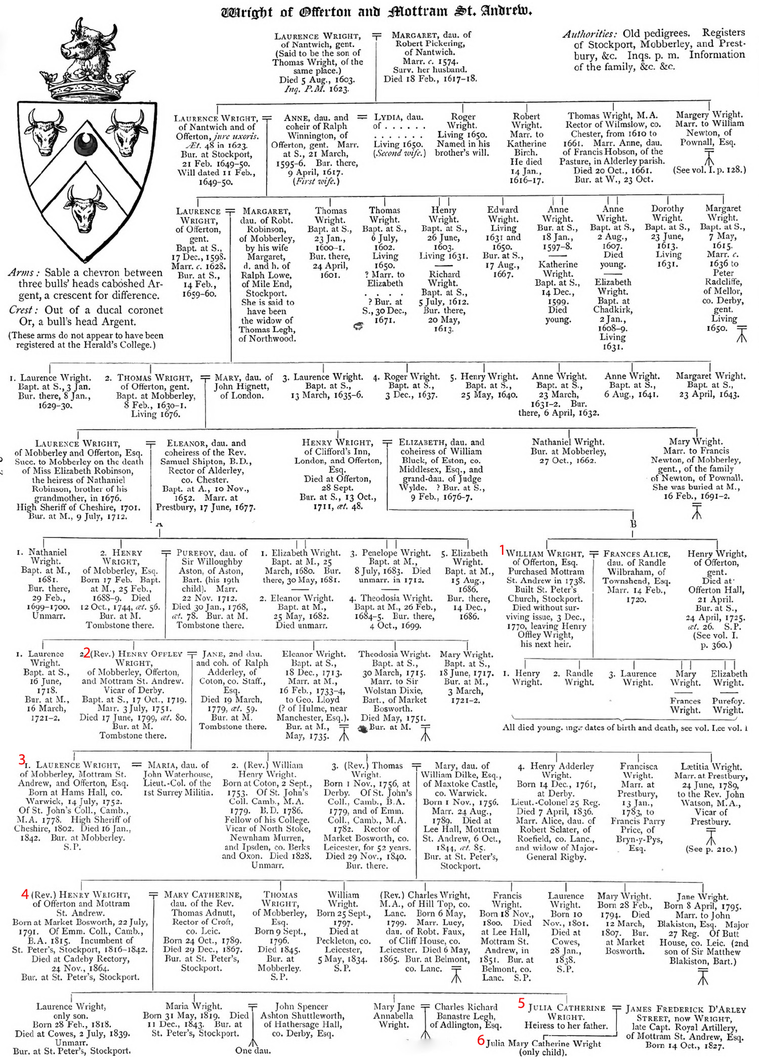 Family tree of the Wright family who owned Mottram Hall in Cheshire for two hundred years.